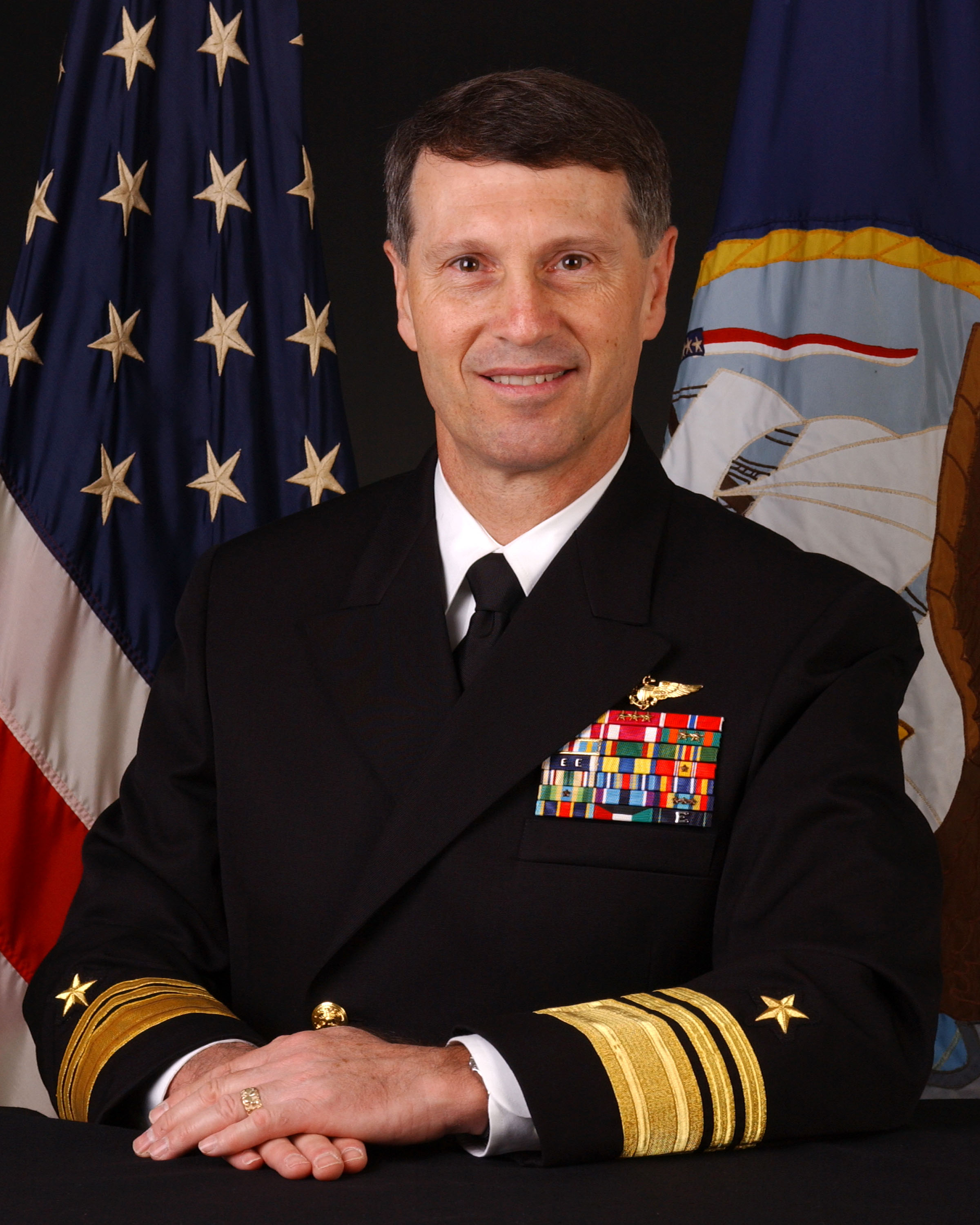 VADM Bruce W. Clingan, USN. Commander, United States Sixth Fleet.